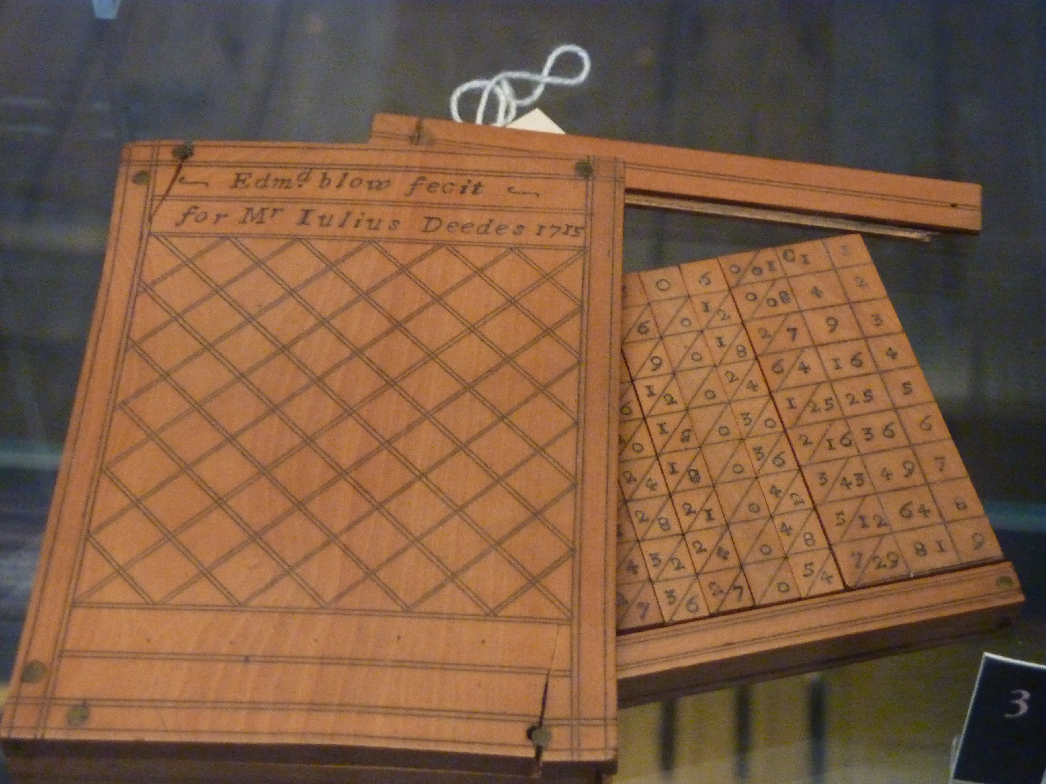 Wooden Napier's rods, 1715.